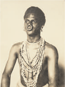 Bata LoBagola, UPM Neg. #S4-140502. Scaled down 50% to deal with jpg artifacts.